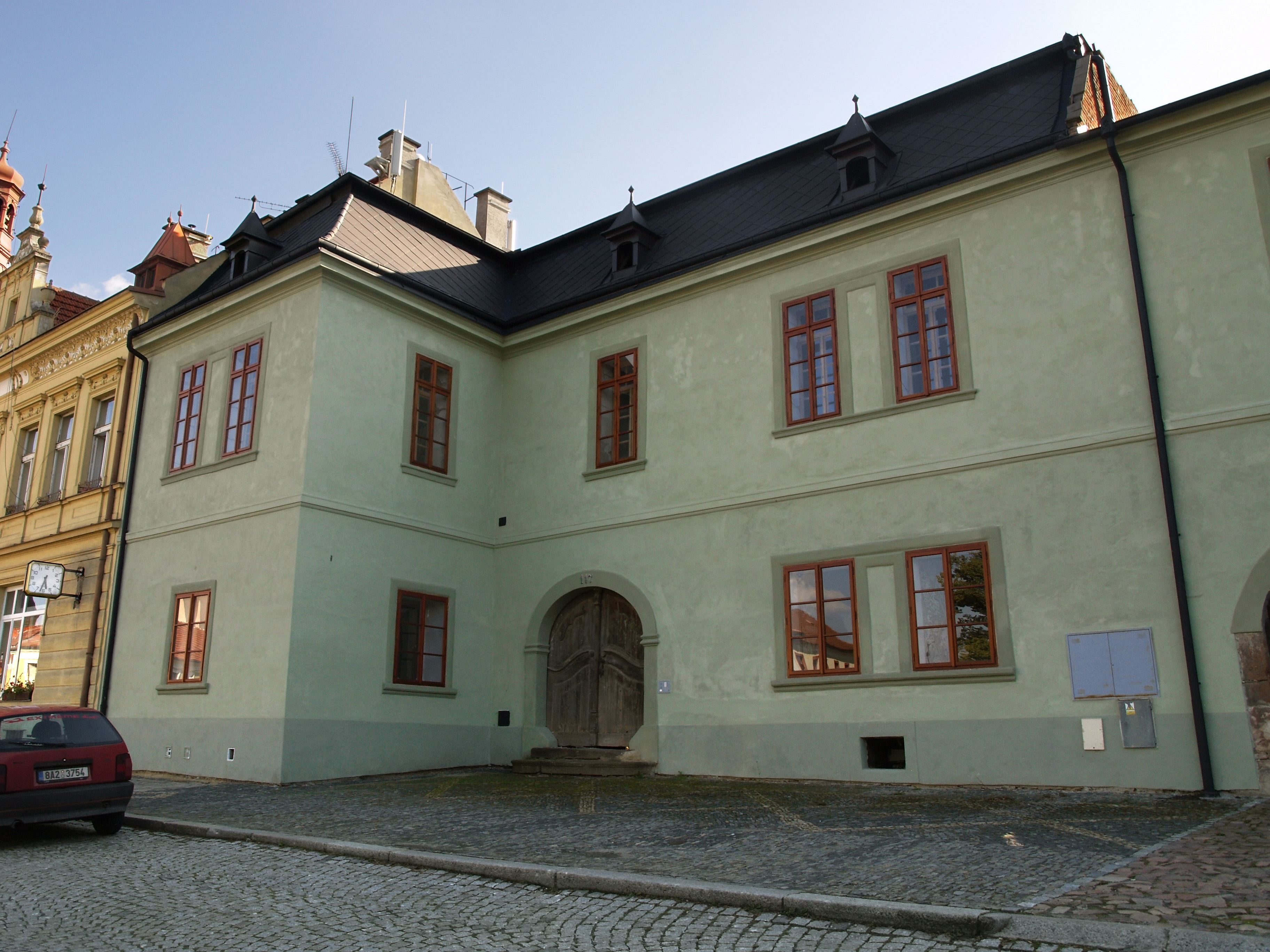 House in Czech town Kouřim where filming of a television serie took place